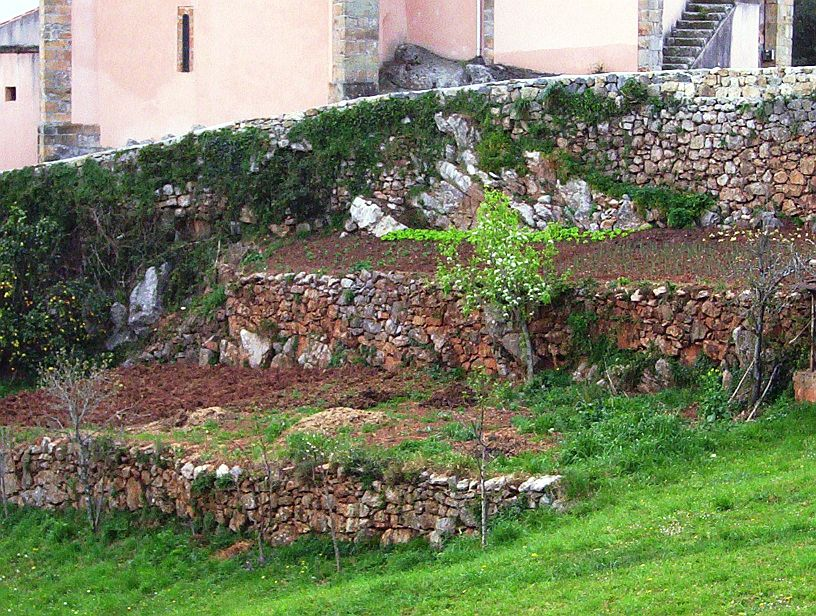 Terrace Place Santa Marina (Cantabria, Spain) Date 2005 Author Emilio Gómez Fernández